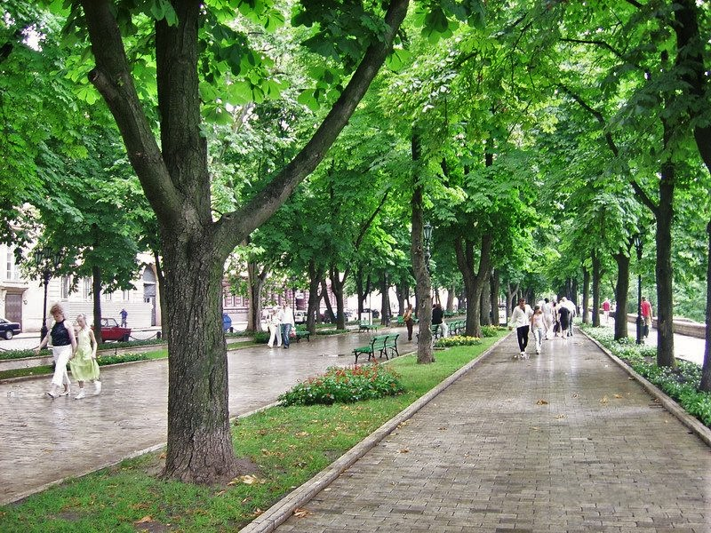 Ukraine, Odessa, Primorskiy Parkway after rain